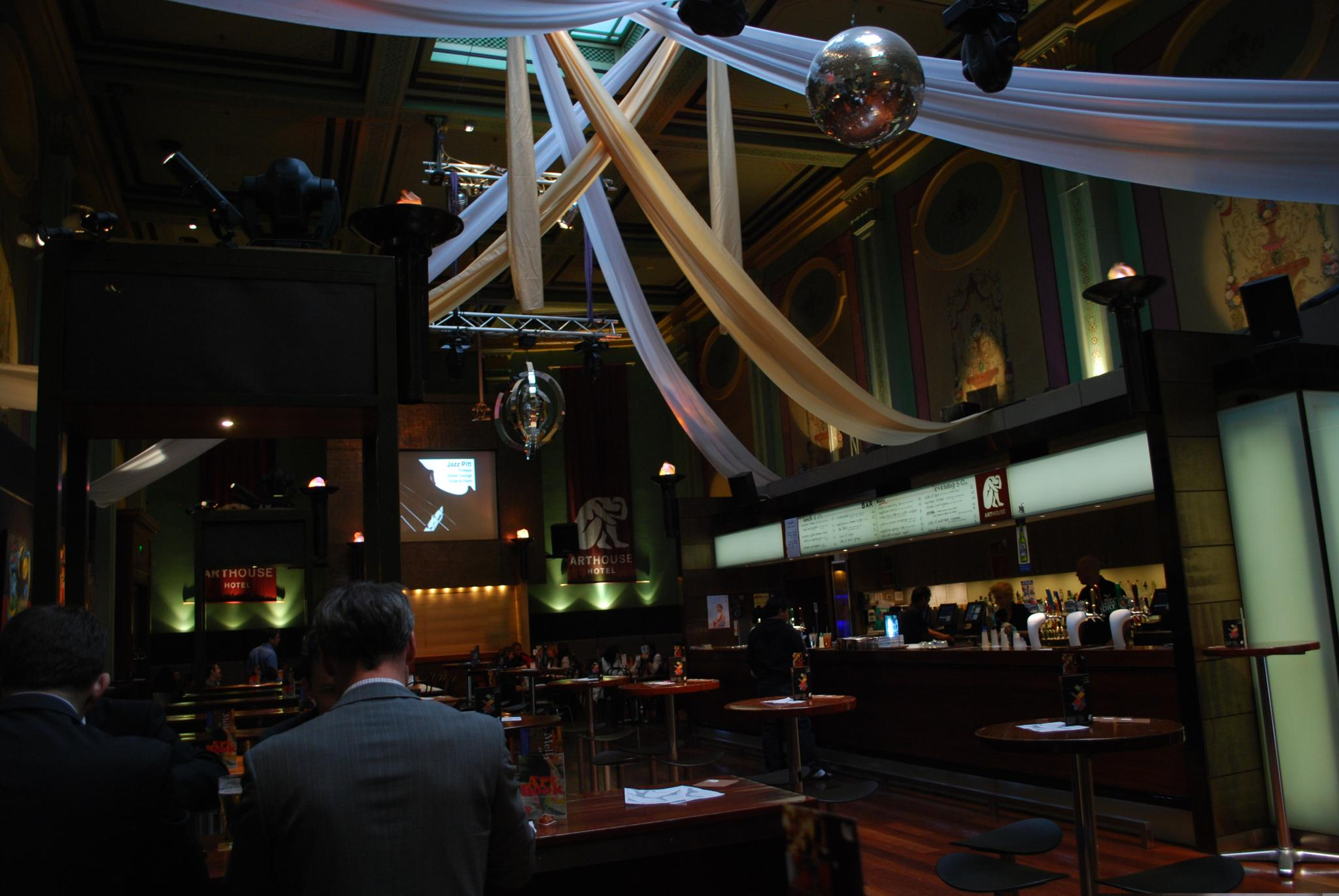 The main bar area of the Arthouse Hotel, Sydney in the Sydney School of Arts building. This building formerly housed the Sydney Mechanics' School of Arts